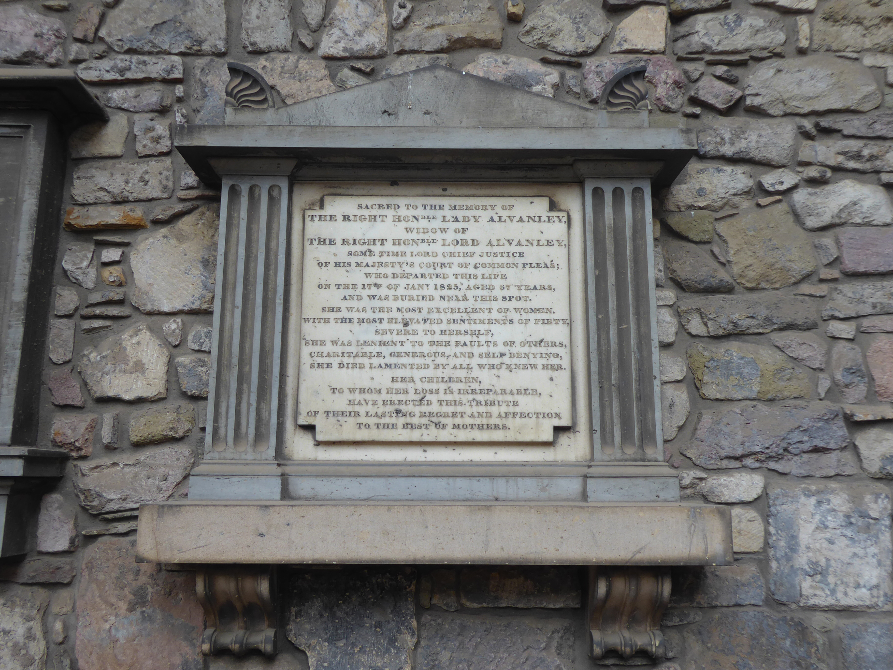 Holyrood Abbey, Edinburgh - Tomb of lady Anne Alvanley